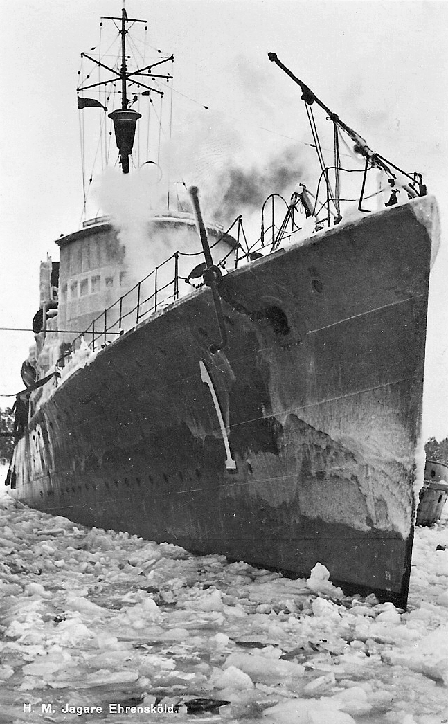 The Swedish destroyer HMS Ehrensköld, commissioned in 1927 and decommissioned in 1963. The picture is probably taken during WWII.